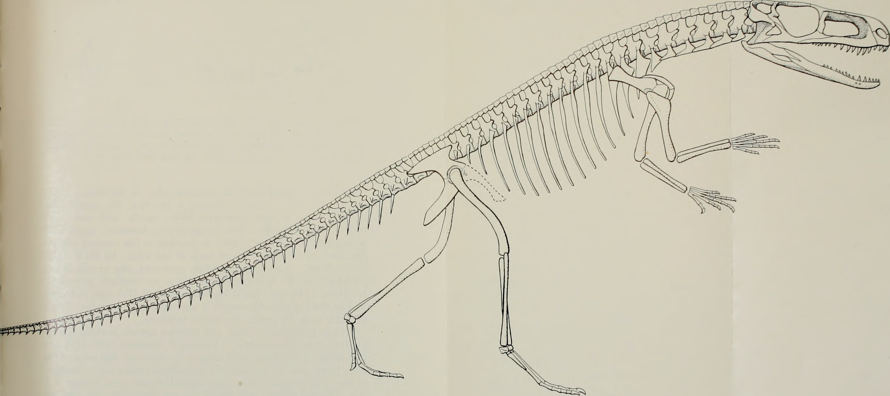 Title: Breviora Year: 1971-1973 (1970s) Authors: Harvard University. Museum of Comparative Zoology Subjects: Publisher: Cambridge, Mass. , Museum of Comparative Zoology, Harvard University Text Appearing Before Image: 1972 (iRACILI.SUCHUS STIPANIGICORUM 13 Text Appearing After Image: Plate 1. Skeleton of Gracilisiirhiis stipanicicoiiini, restored. Dermal slioiililer elements, manus. pubis, and distal part of tail unknown. X 1/2